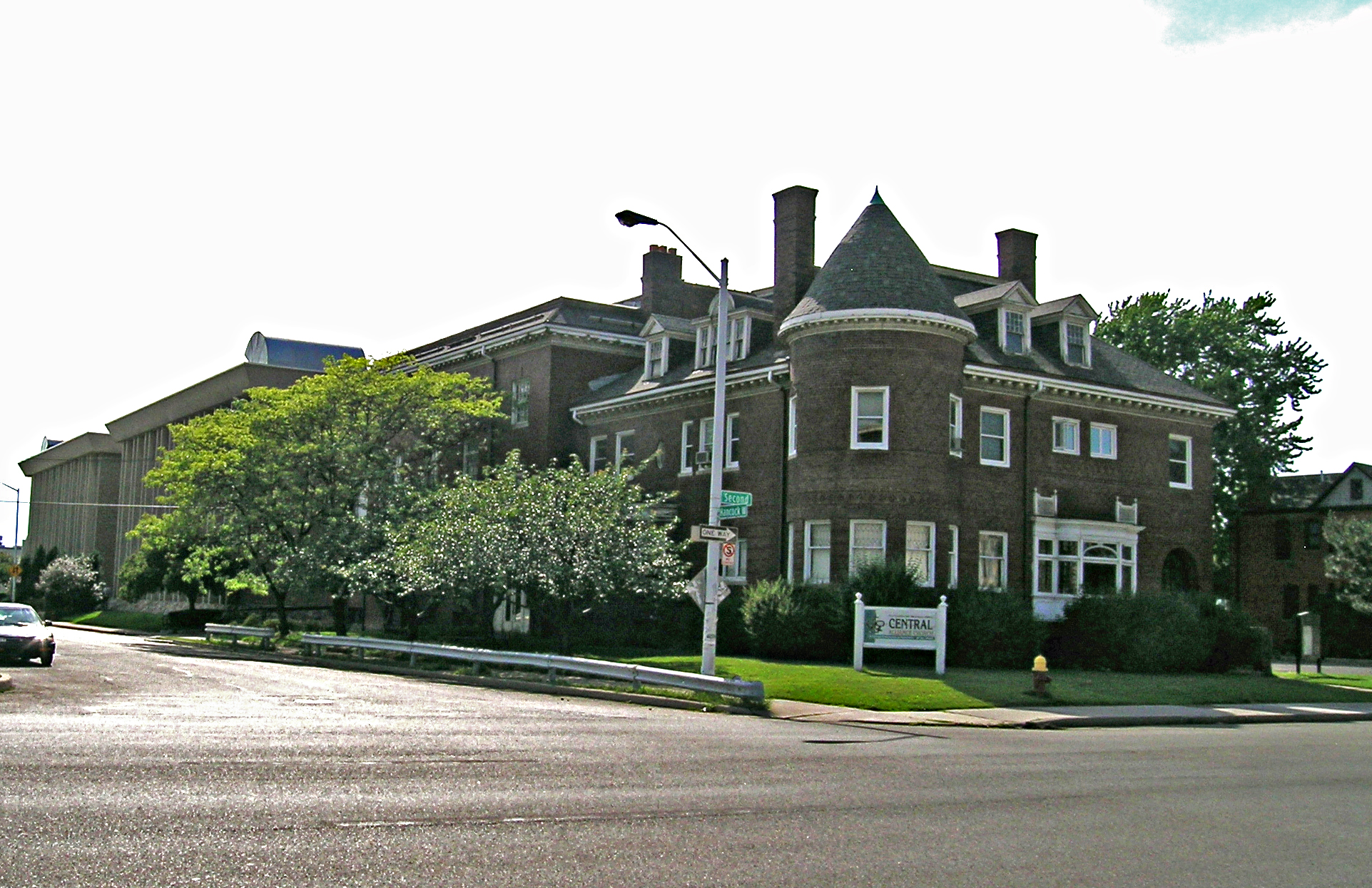 Church in the Warren-Prentis Historic District, Detroit, Michigan, United States. Formerly known as the William A. Butler House.